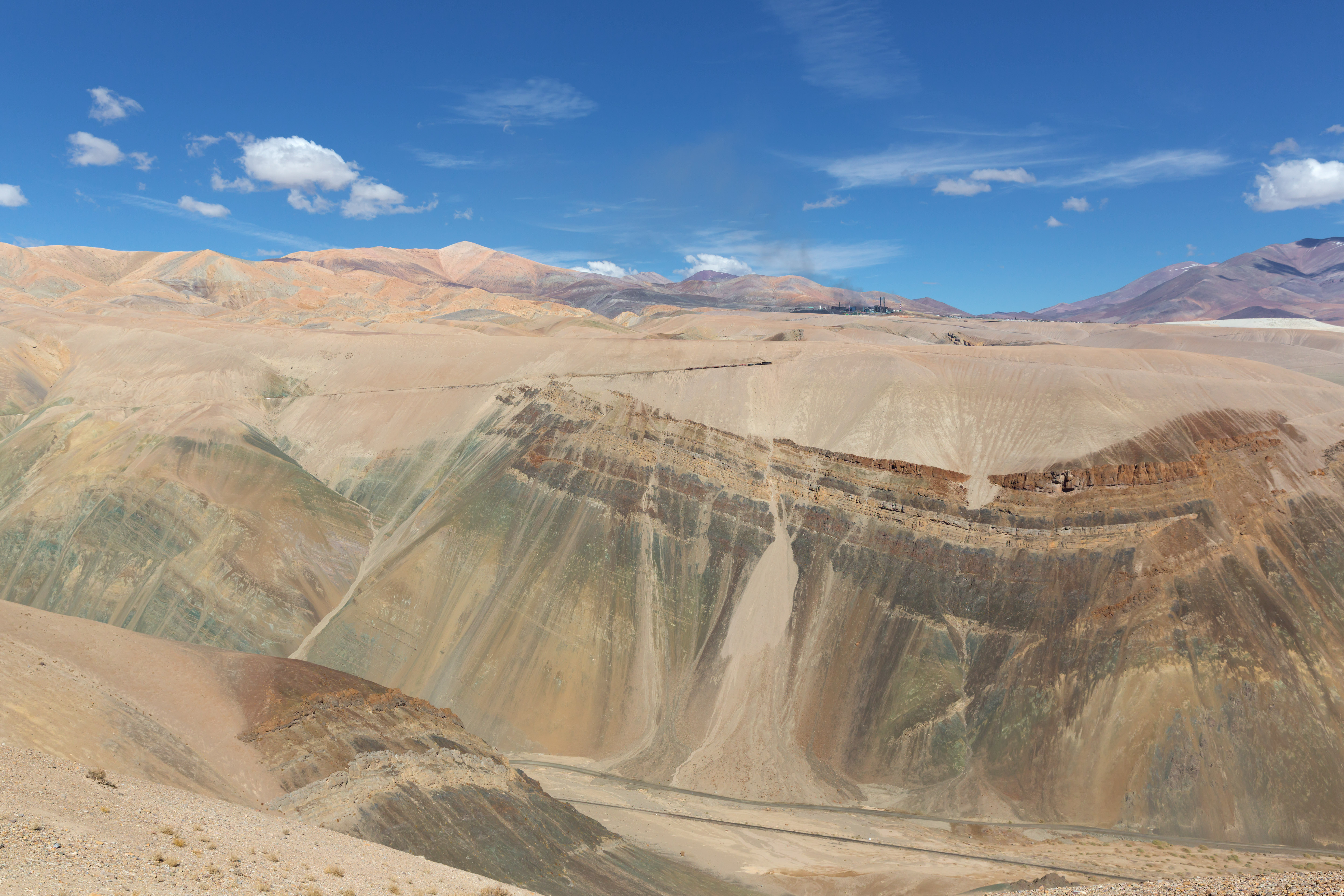 A Ferronor GR12U with empty sulfuric acid tank cars is climbing the grade from Montadon to Potrerillos, Chile.